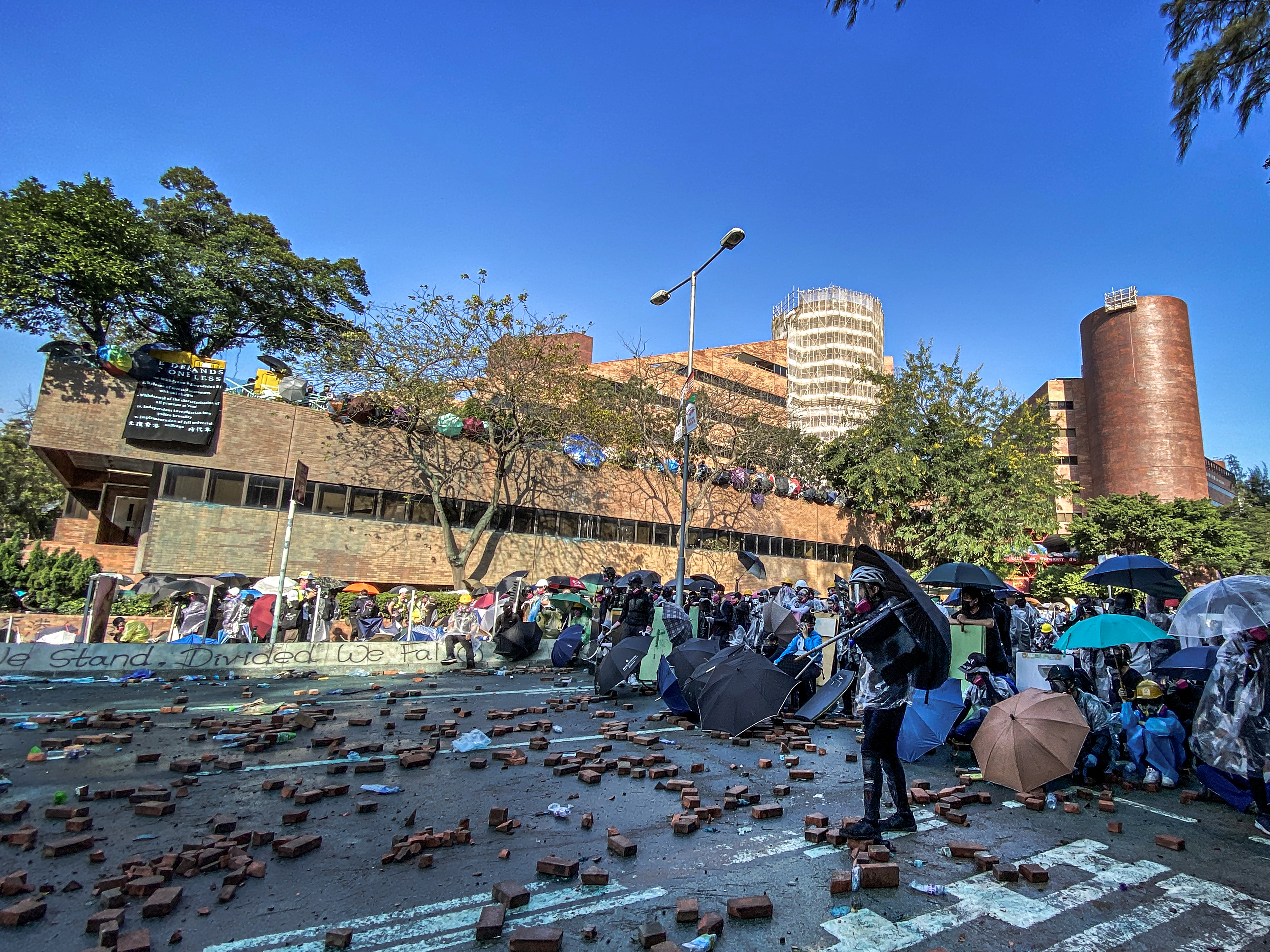 Cheong Wan Road and HKPU Core A protester